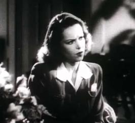 Cropped screenshot of Jane Randolph from the trailer for the film Cat People (1942).